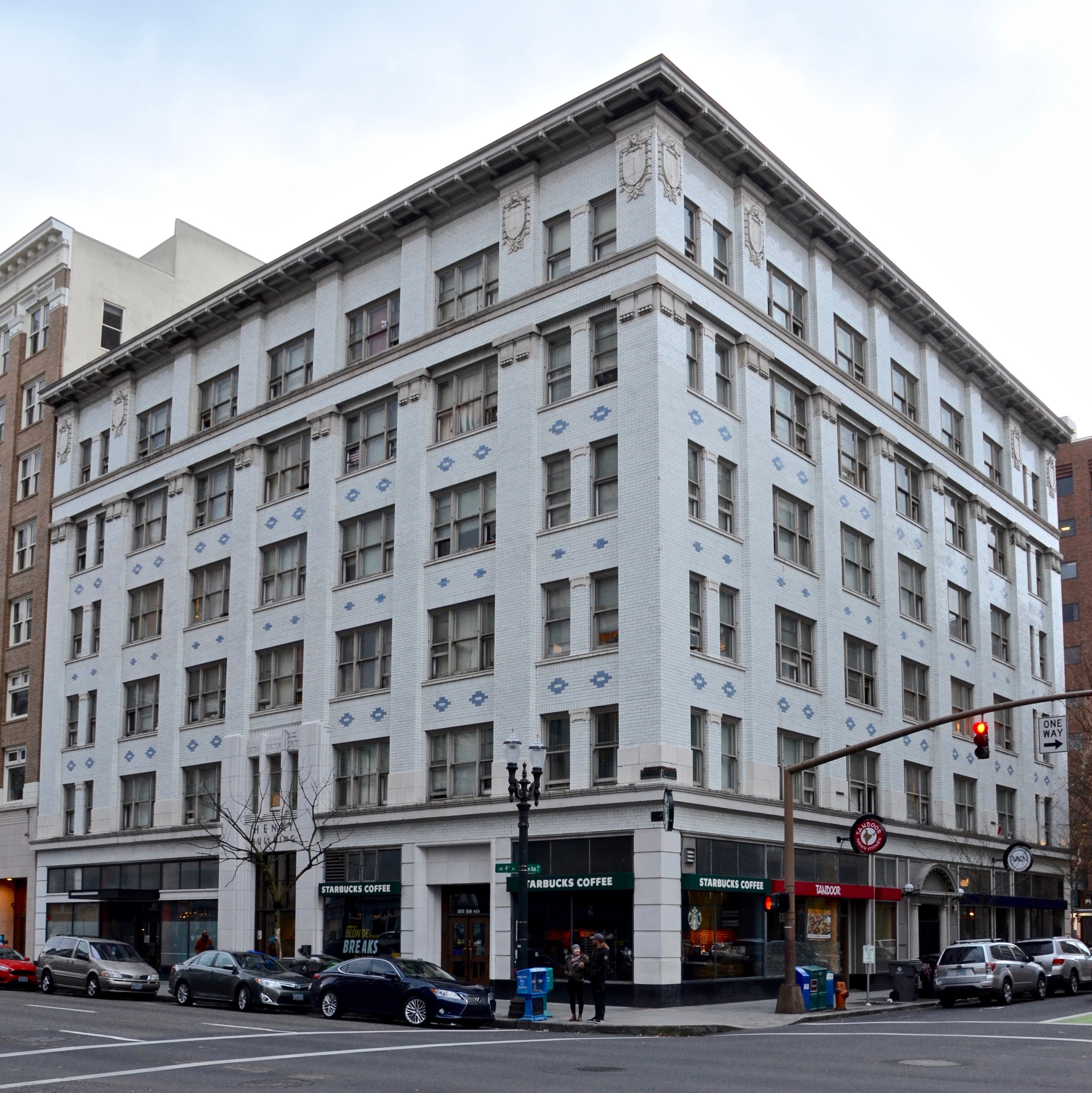 The C.K. Henry Building in downtown Portland, Oregon, viewed from the northeast, across the intersection of SW 4th & Oak. The 1909 building is listed on the U.S. National Register of Historic Places.